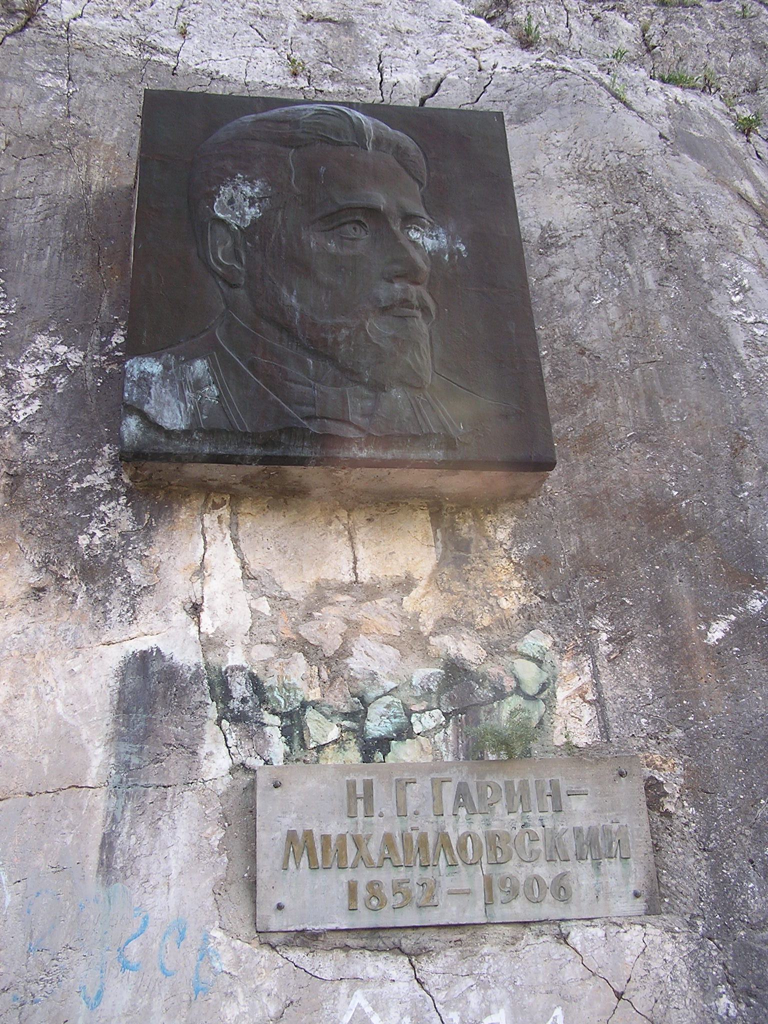 Laspi Pass